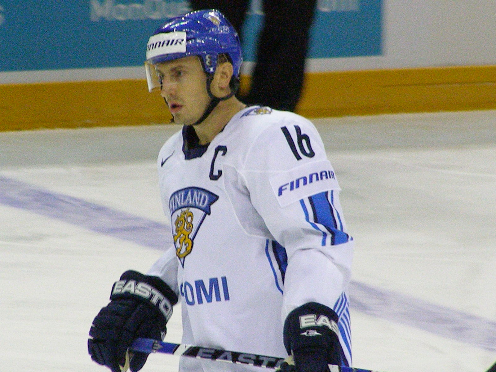 Ville Peltonen, forward for the Finland men's national ice hockey team, during a break in action against Germany men's national ice hockey team at the 2008 IIHF World Championship.